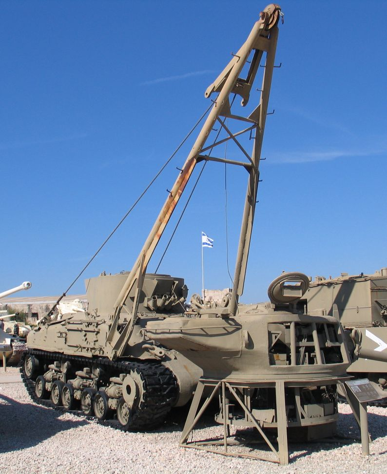 Description:Sheerlegs mounted on M32 ARV (HVSS variant) in Yad la-Shiryon Museum, Israel. 2005. Source: Photo by me, User:Bukvoed.